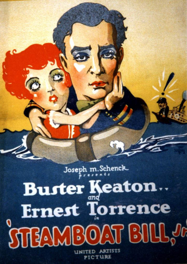 Poster for Steamboat Bill Jr., an American movie starring Buster Keaton.